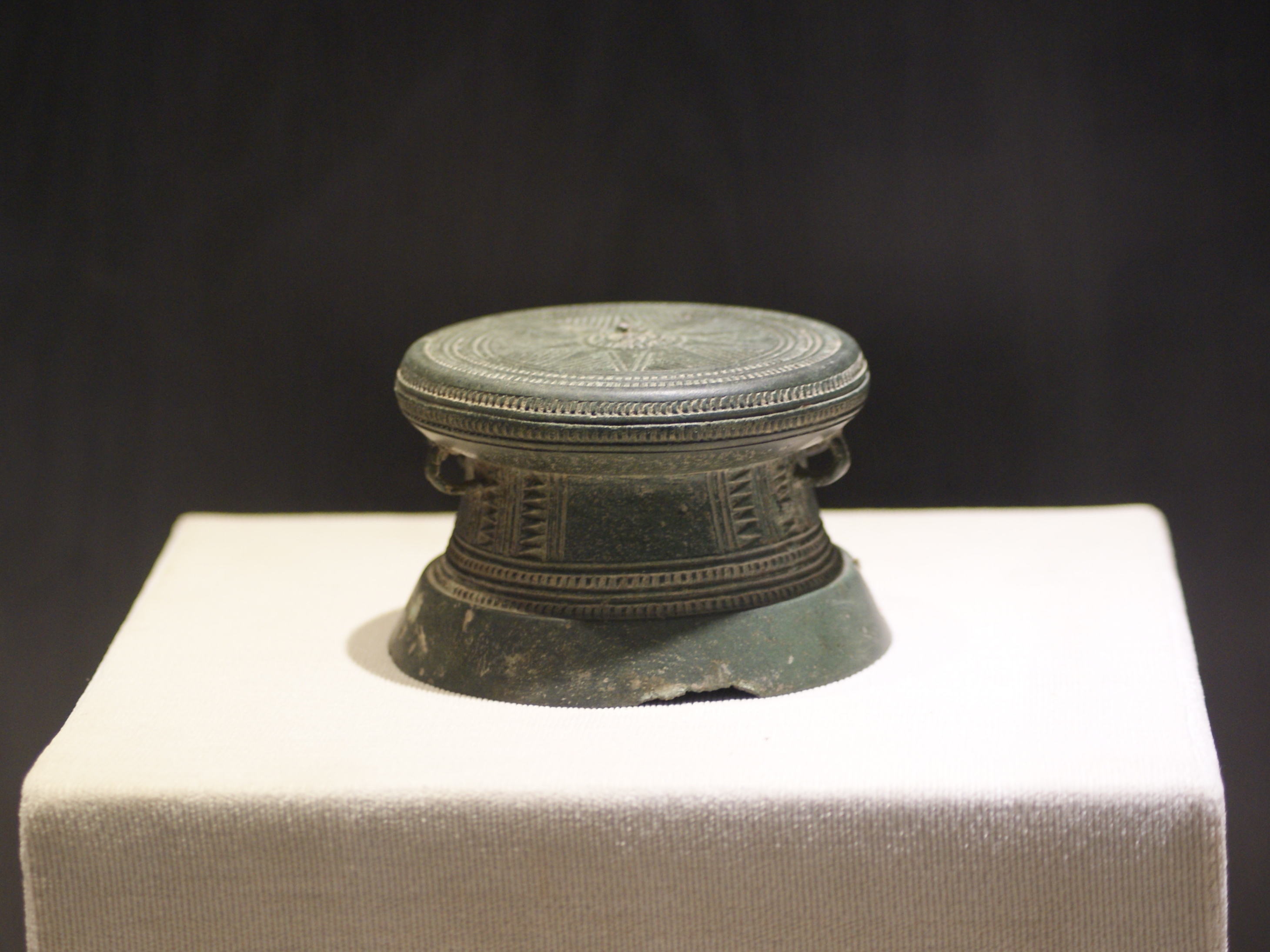 Small sized bronze drums-Hanoi museum